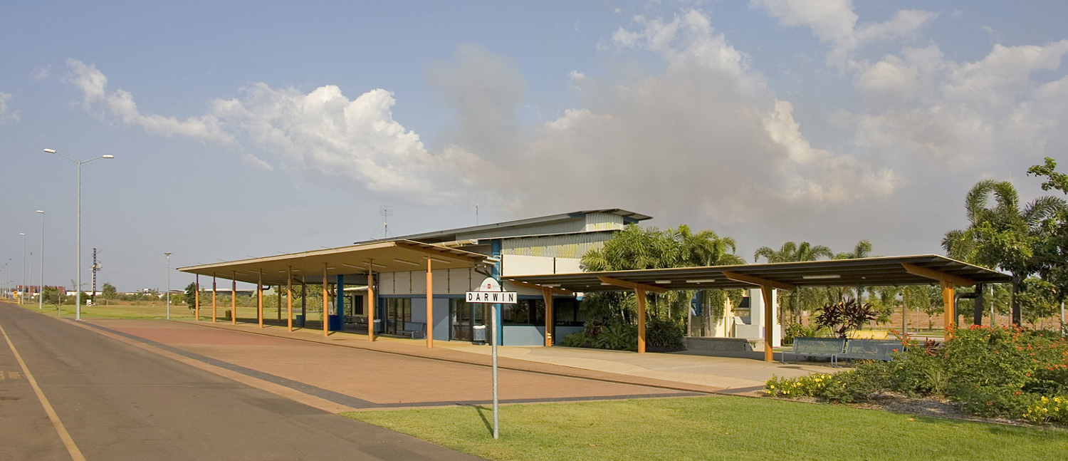 Darwin railway station building (also known as Berrimah passenger terminal), looking east. The line on which The Ghan passenger train from Adelaide arrives and departs is immediately to the left; boarding and alighting are at ground level.